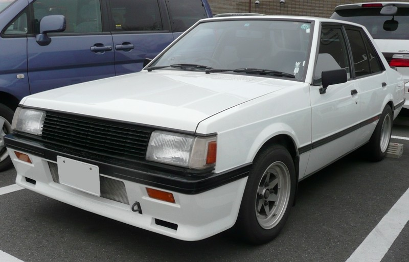 Mitsubishi Lancer EX turbo.